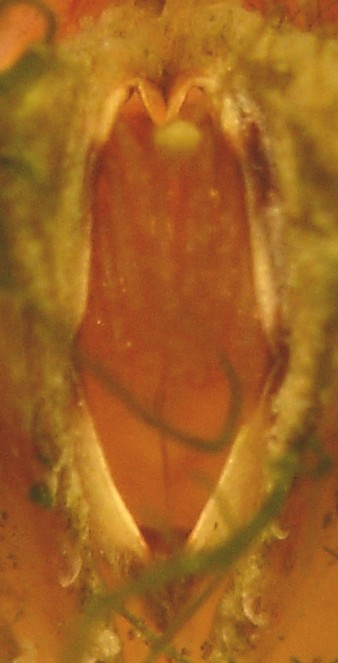 Solidobalanus fallax. Tergo-scutal flaps.